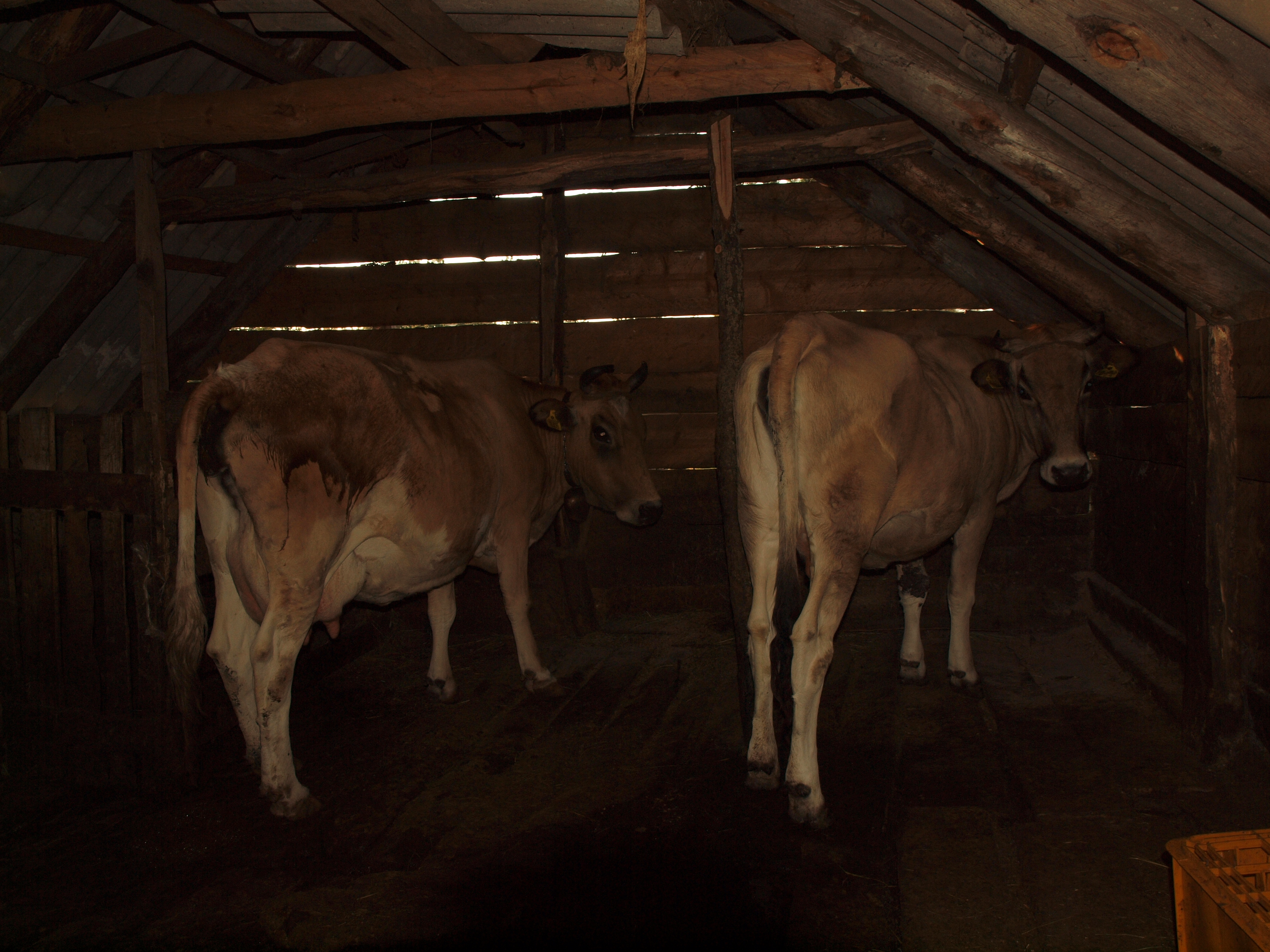 Busa cattle in barn Bijela gora - Jarciste Mt Orjen